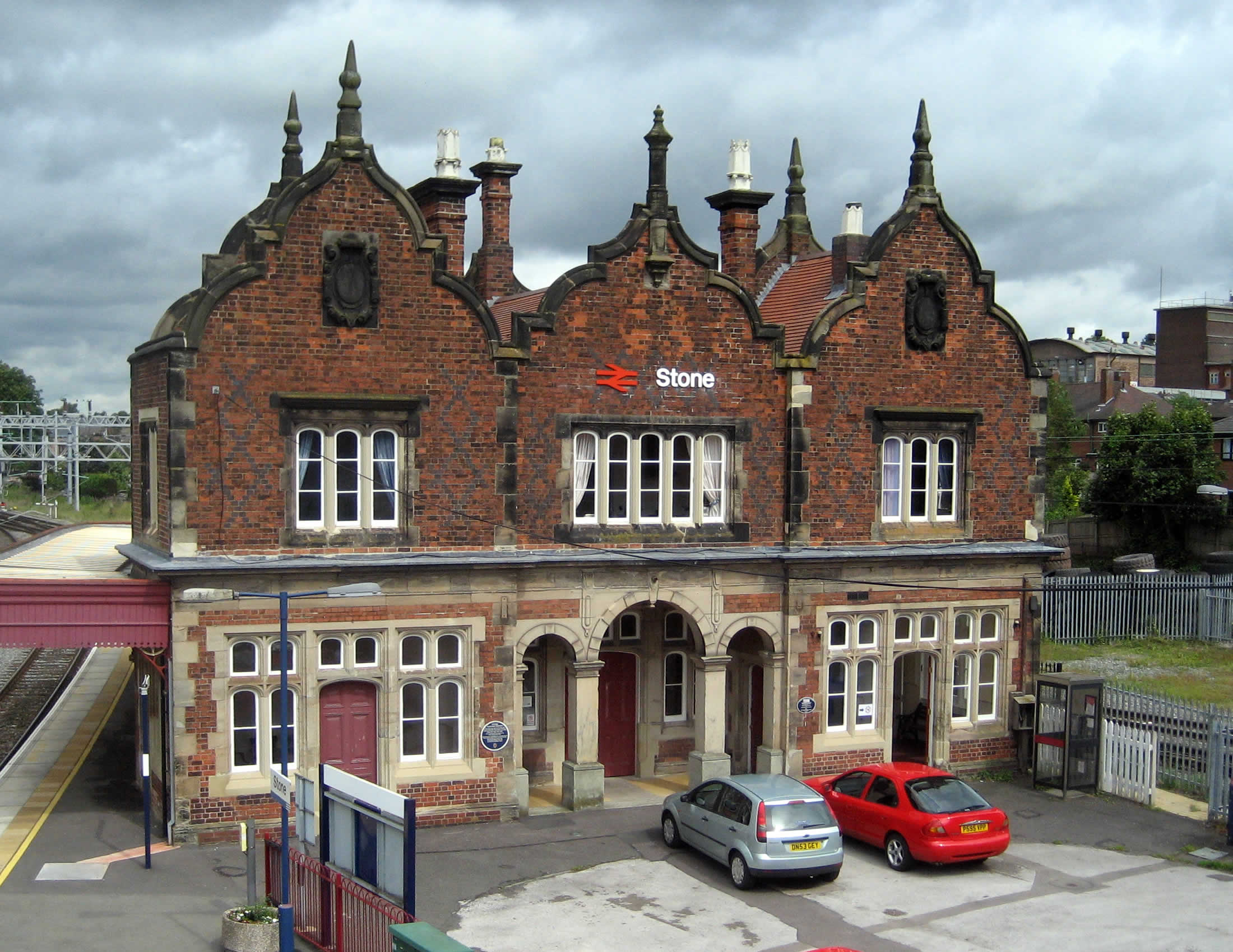 Stone railway station, 10 July 2008.